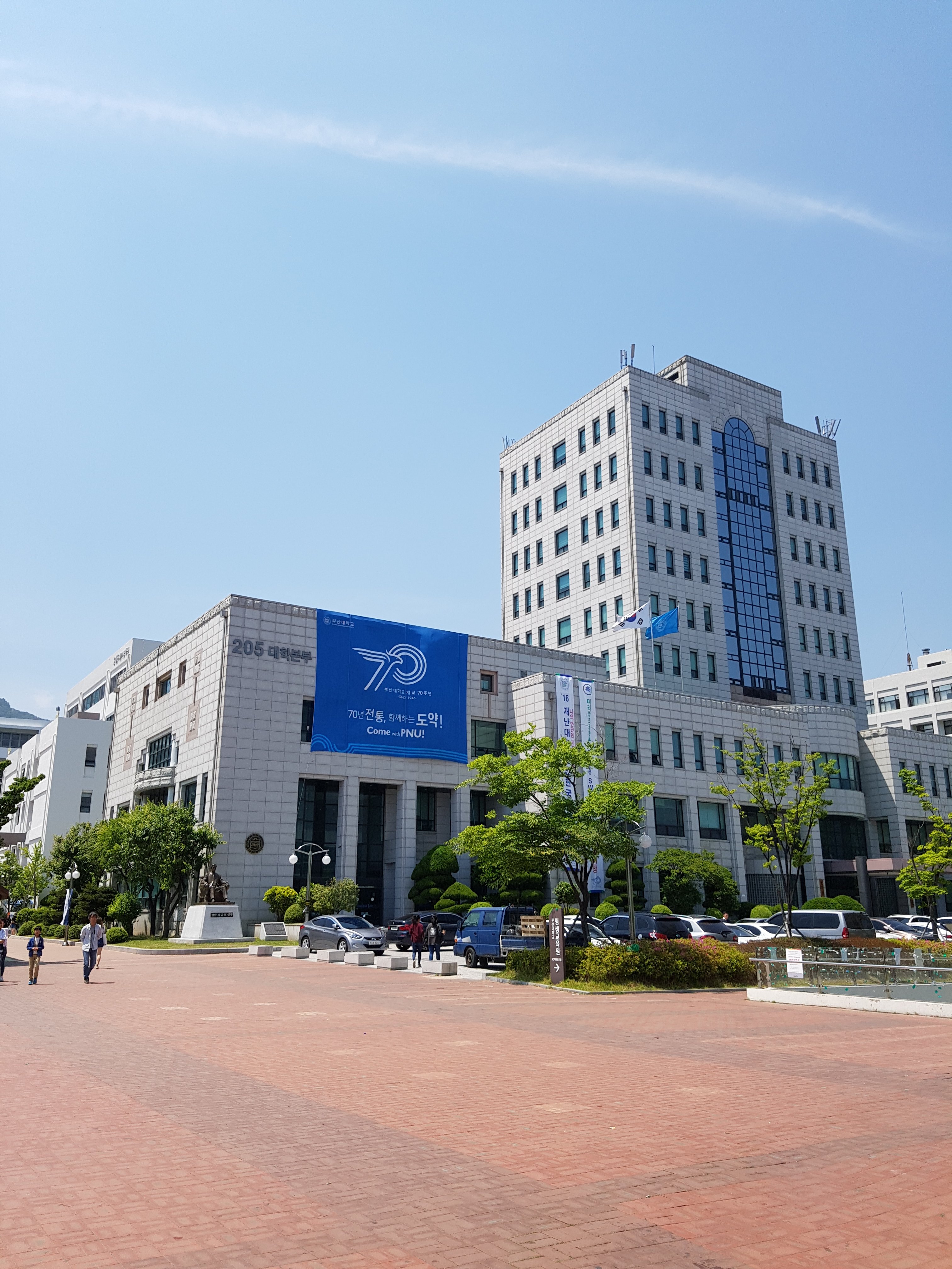 PNU main building